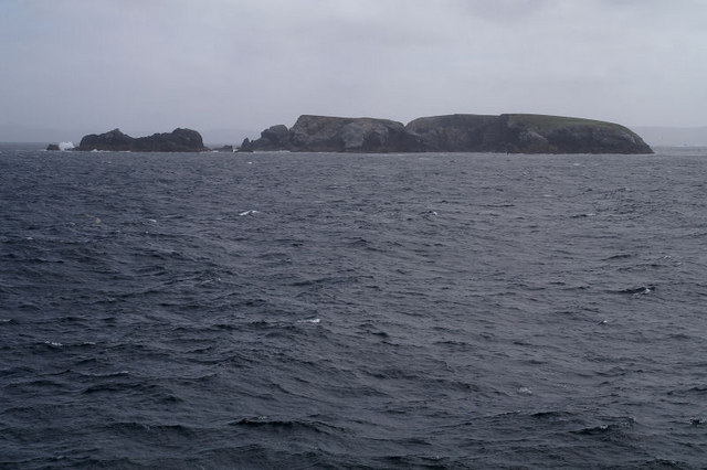 Gloup Holm With the Clapper on the left. Taken from one of the Yell Sound ferries on a North Isles cruise.